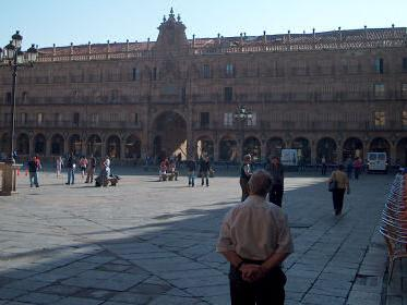 Illustration of an image with an aspect ratio of 16:9 (1:1.77)